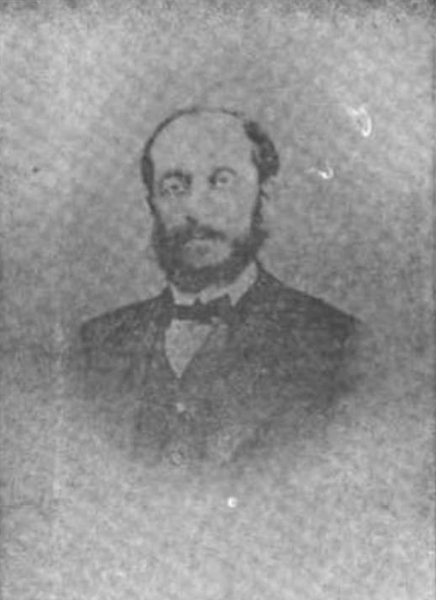 Depicted person: Francis Marrash – Syrian writer and poet